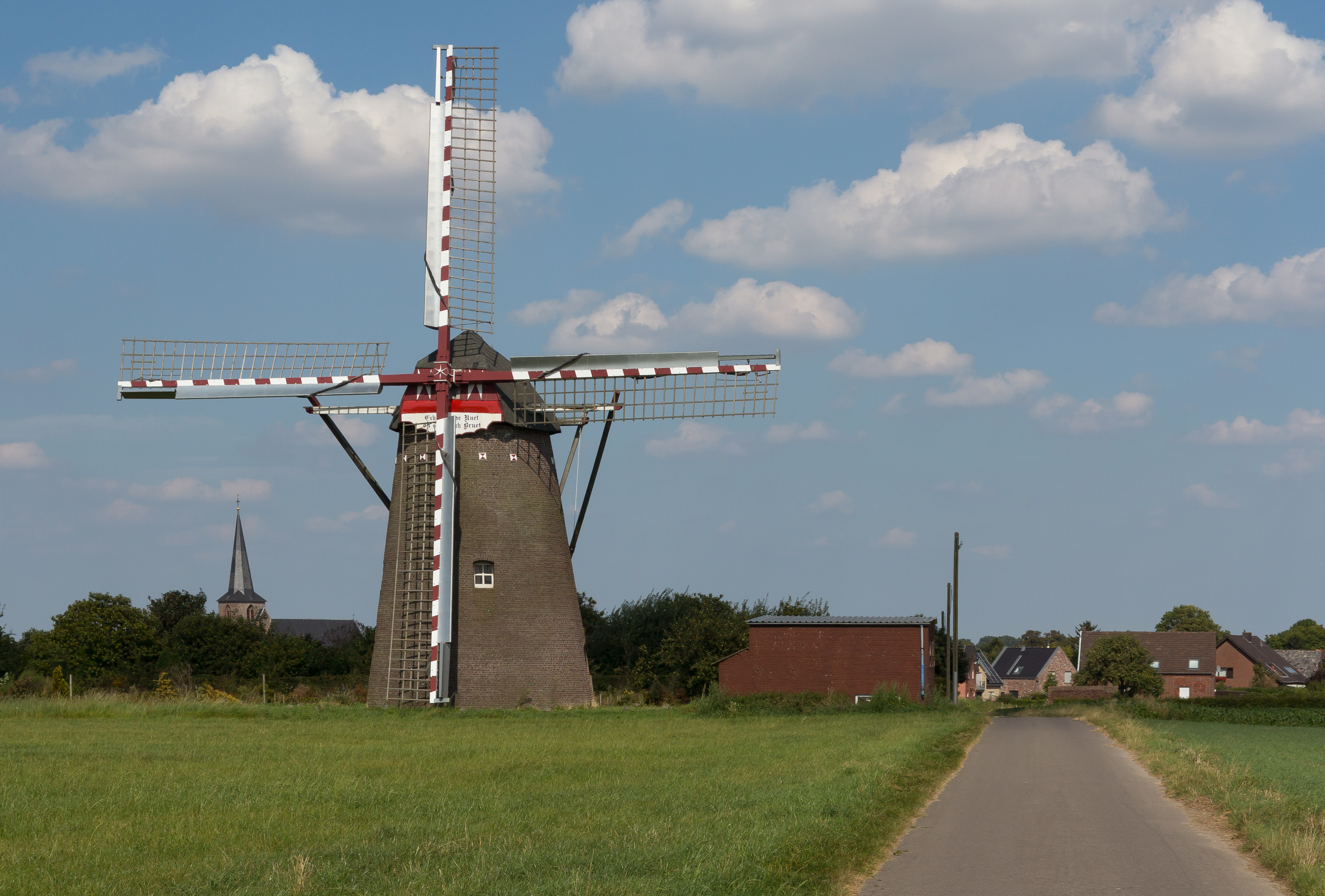 Waldfeucht, windmill with church in backgroundThis is a photograph of an architectural monument., no. 8